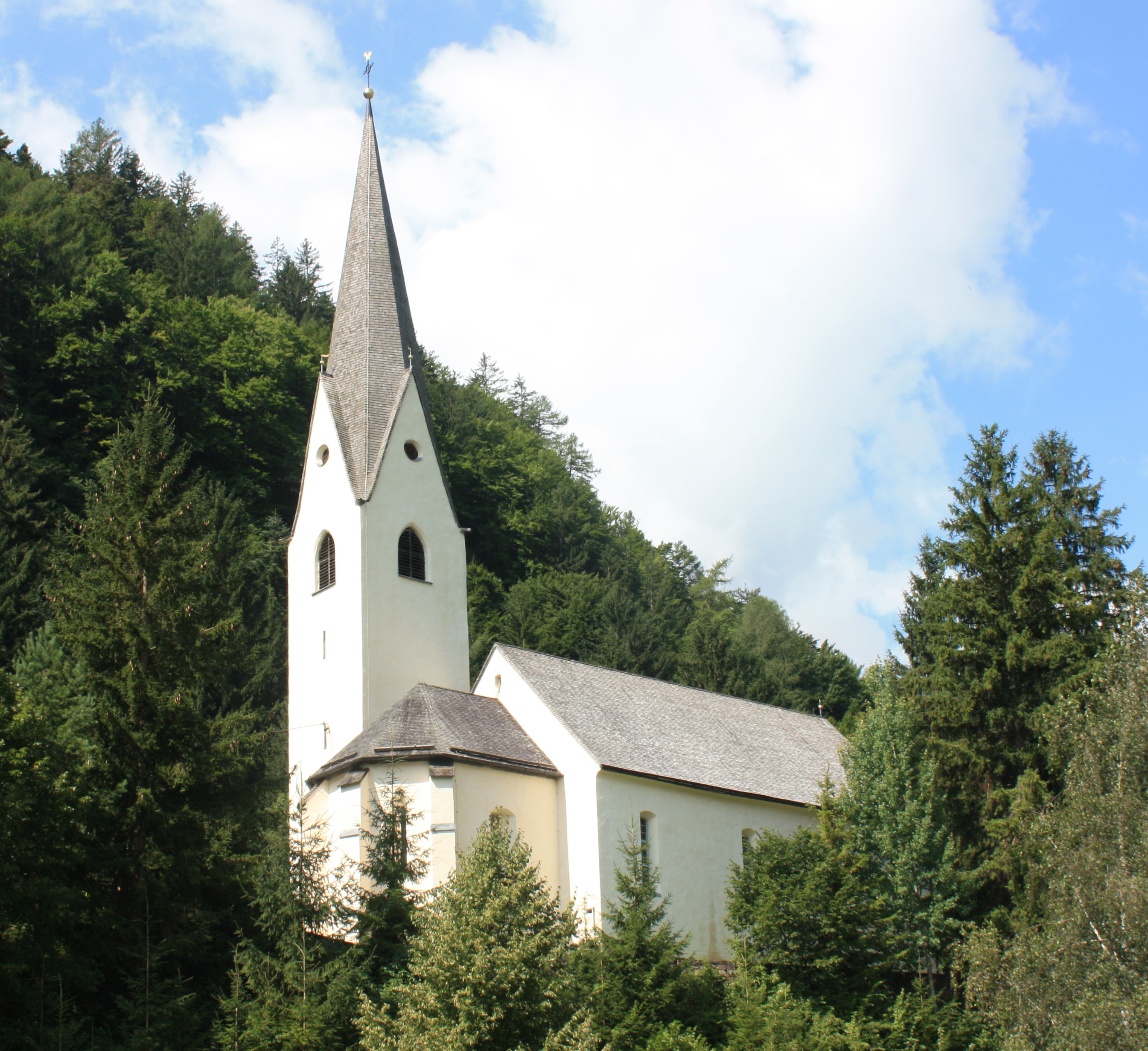 Parish church Ötting Locality:Ötting Community:Oberdrauburg